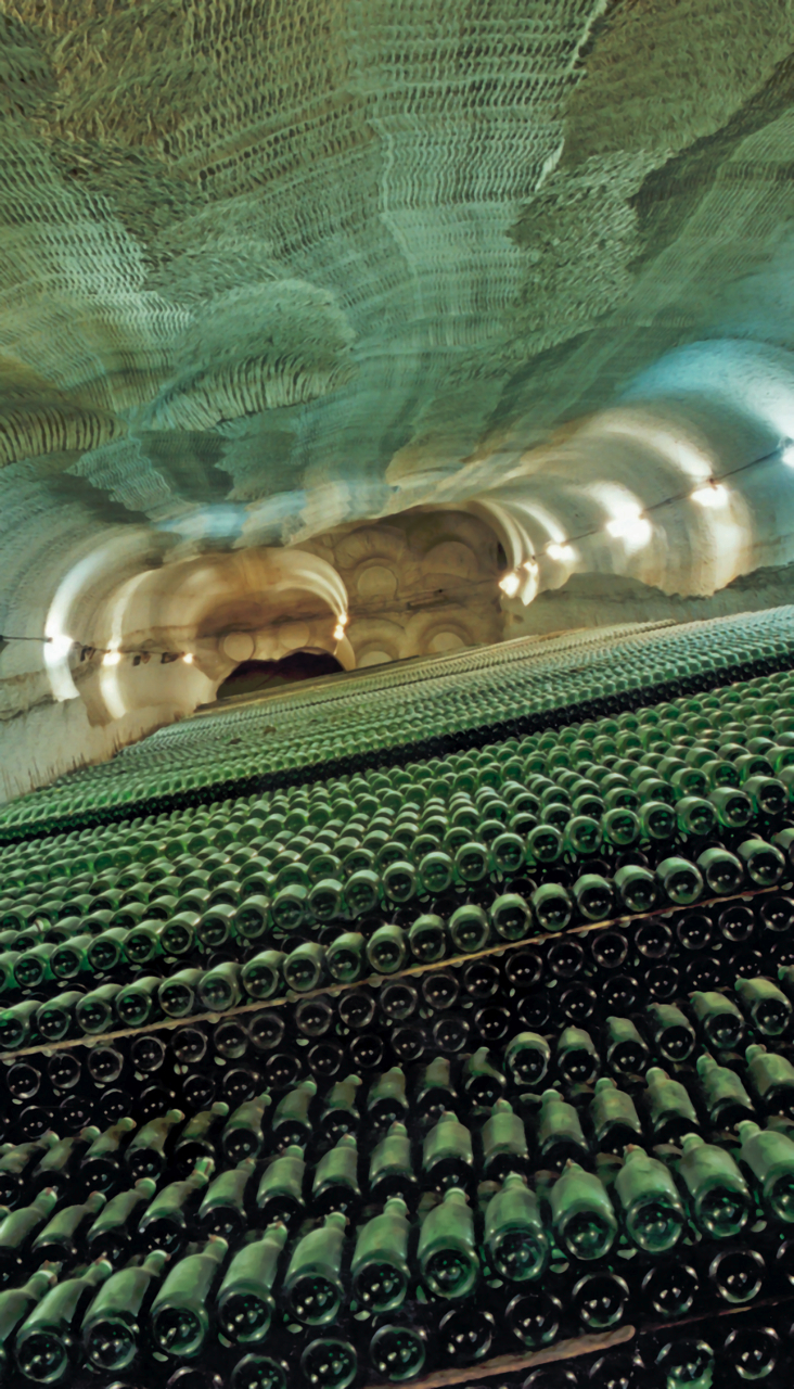 Rows of bottles of sparkling wine in Artemovsk winery cellar (cave)